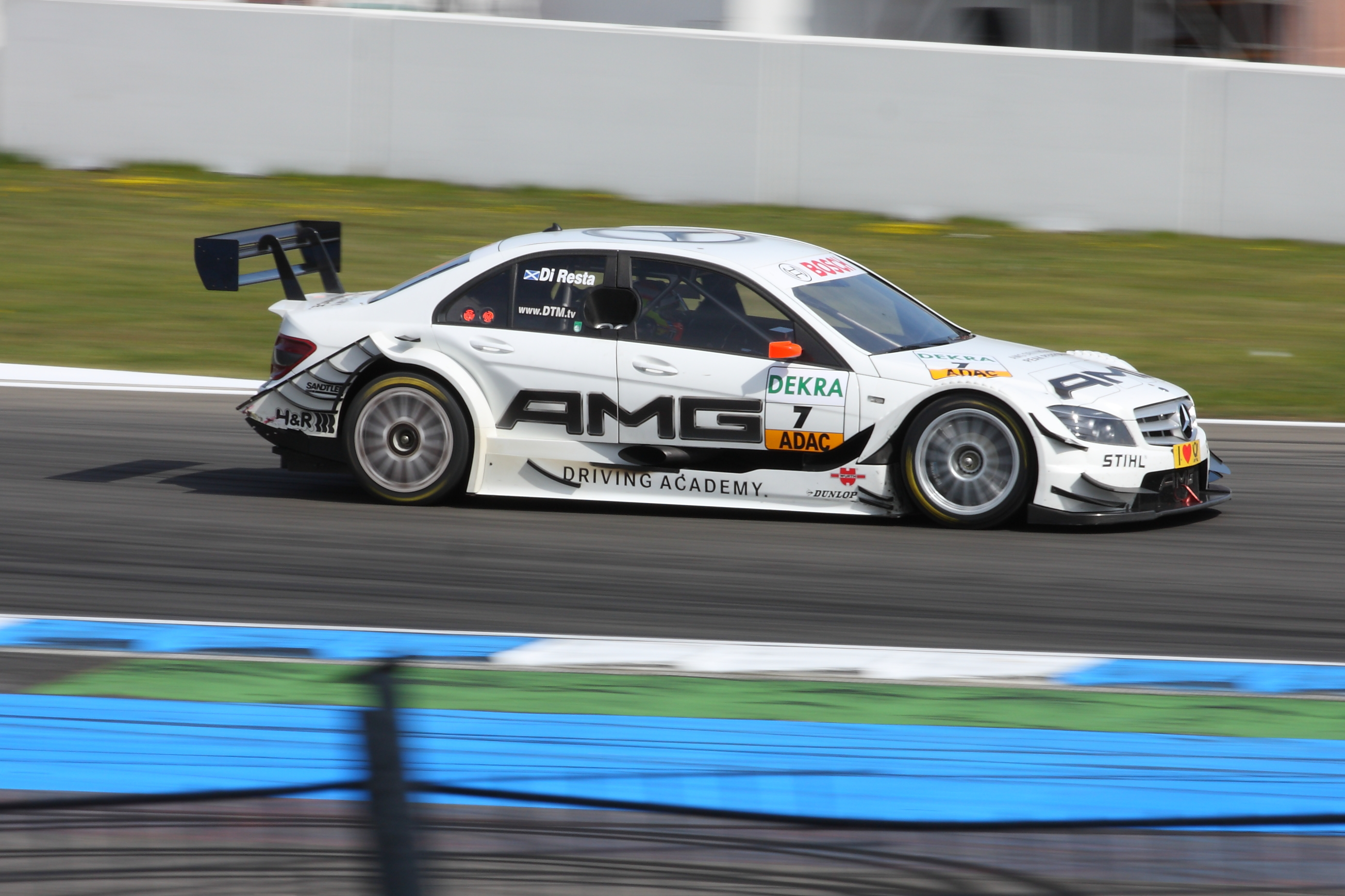 DTM car Mercedes-Benz Season 2010 (C-Class, W204), Paul di Resta (driver)